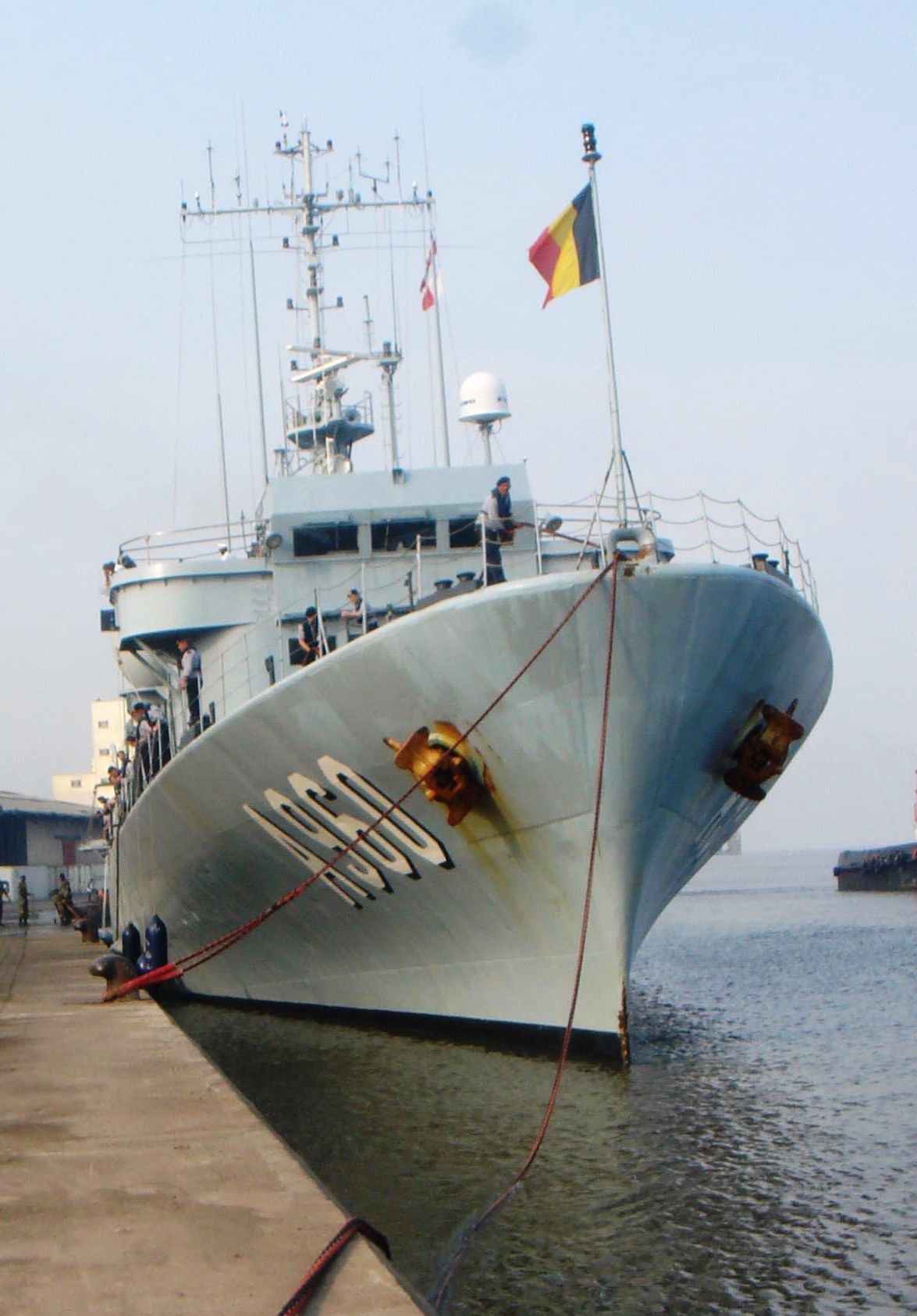 Belgian navy command and logistical support ship BNS Godetia A-960.